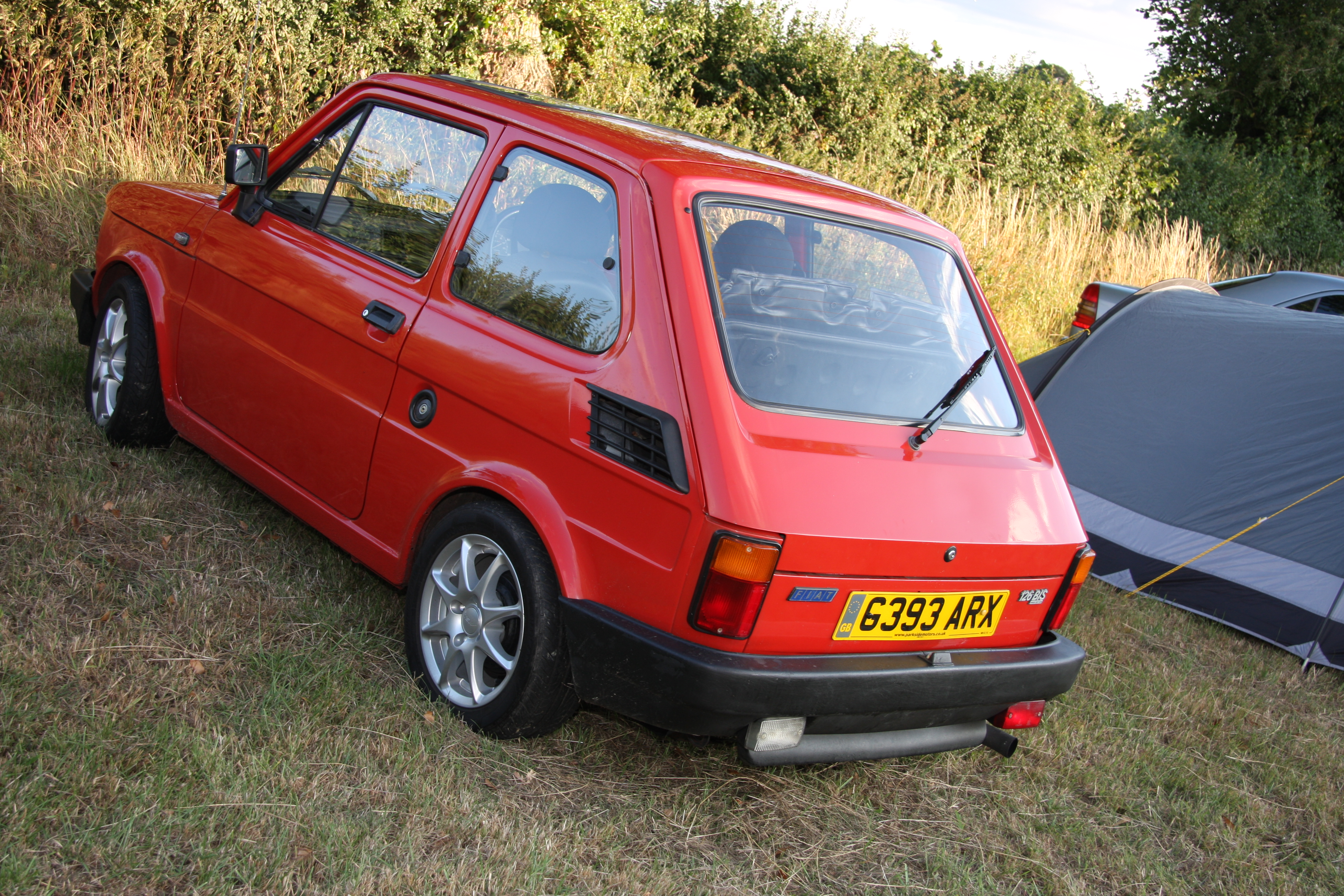 Red Fiat 126 BIS during the Retro Rides Gathering Haynes Museum August 2010.